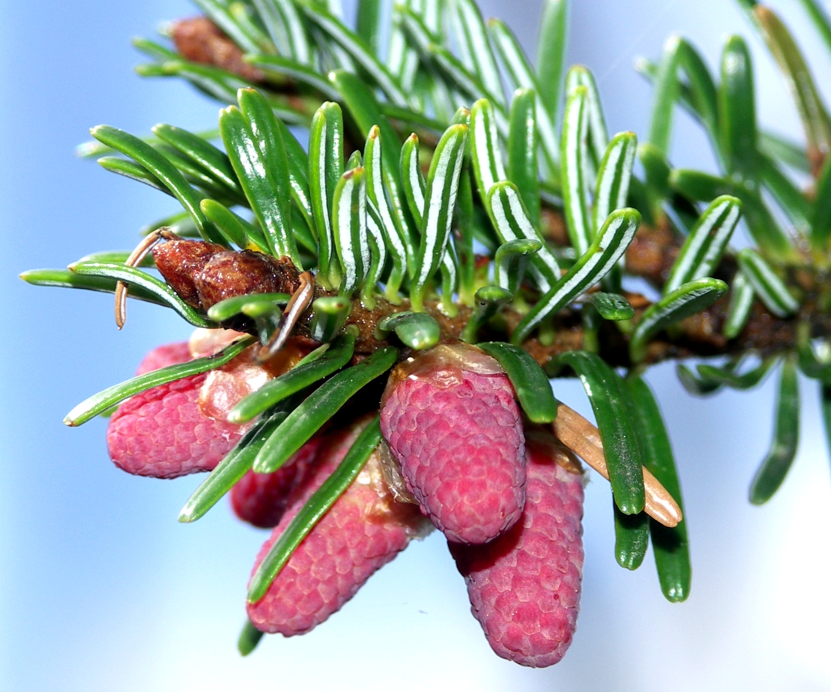 Male fir cones and leaves (Abies nordmanniana ?)